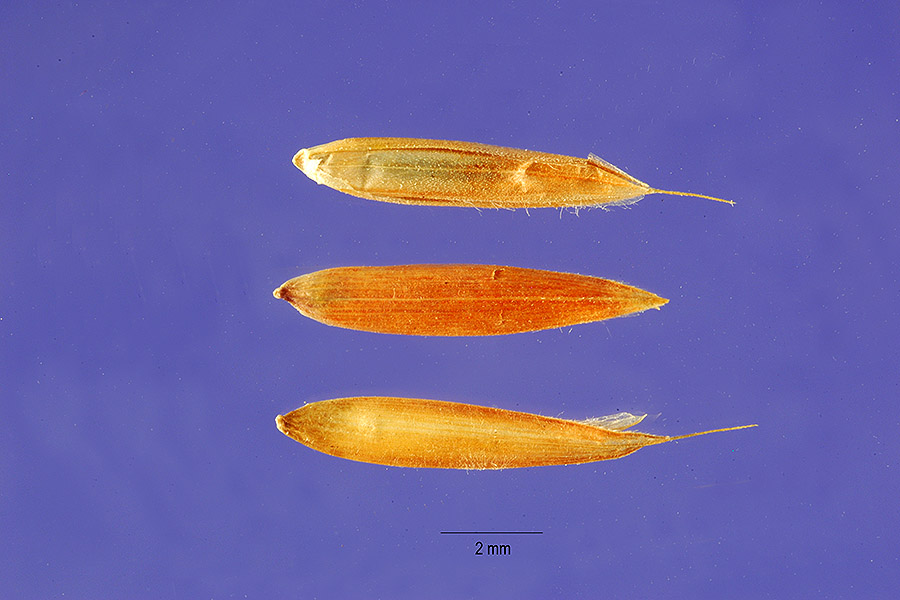 Seeds of Andropogon gayanus